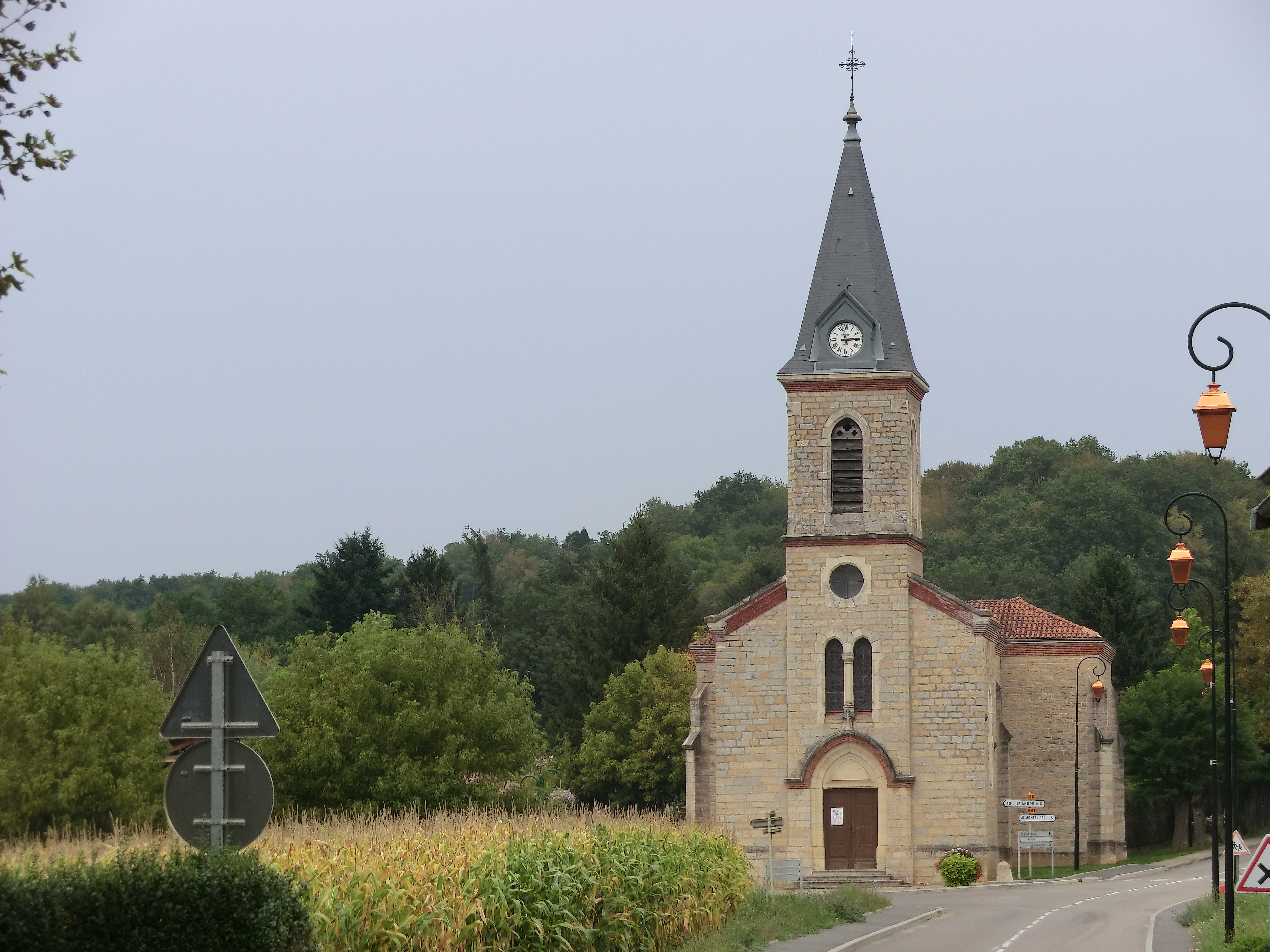 Church of Sainte-Croix (Ain).